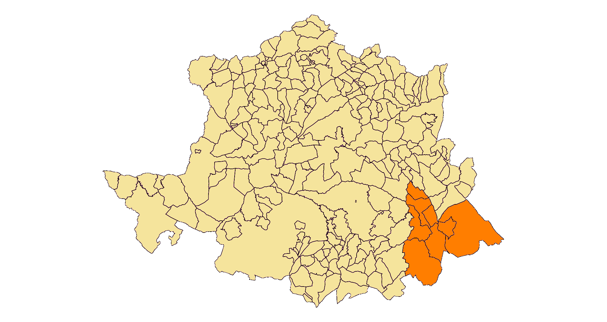 Map of Las Villuercas